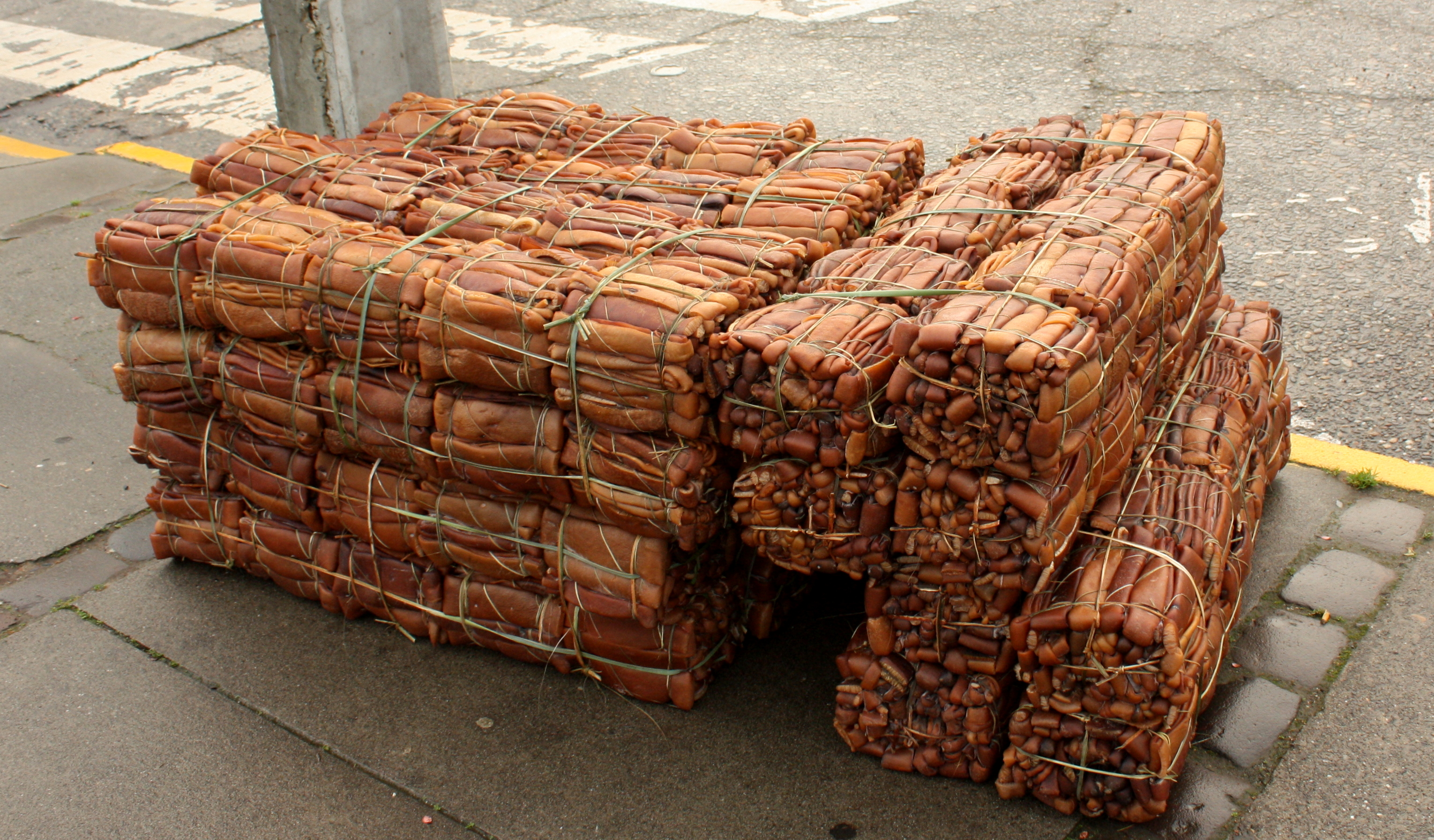 Dried cochayuyo (Durvillaea antarctica) near Validivia's market, Chile.